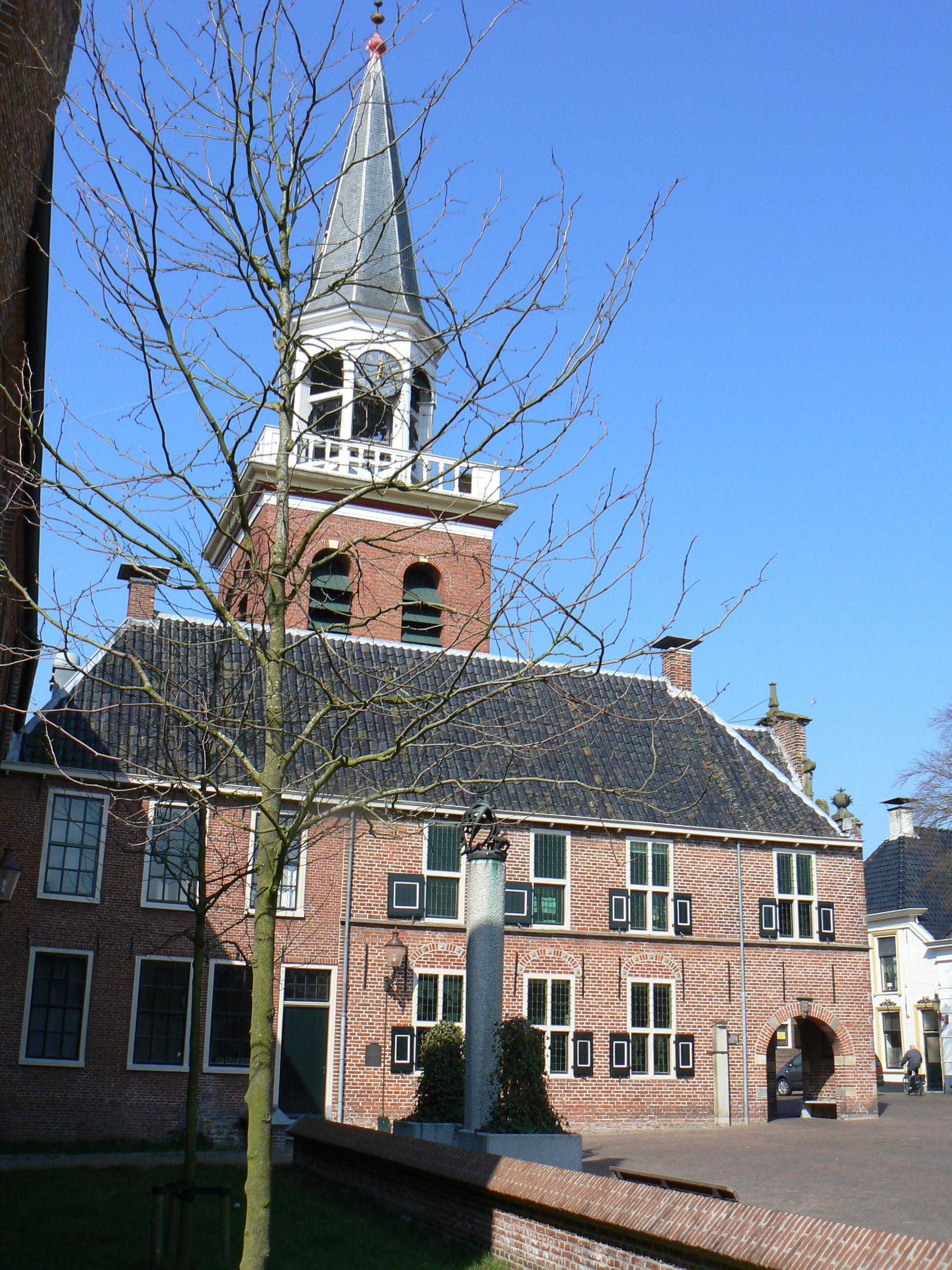 Appingedam/The Netherlands